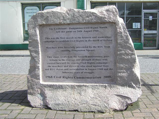 Civil Rights Commemoration, Coalisland. The inscription reads, "The Coalisland - Dungannon Civil Rights March left this point on 24th August 1968. This was the first march in the historic and momentous campaign to establish Civil Rights in the north of Ireland. Marchers were forcefully prevented by the RUC from entering Dungannon Square This stone, erected on the fortieth anniversary, pays tribute to the courage and strength of those who carried forward the coming Civil Rights campaign - the marchers and stewards who stood against State and RUC threat and intimidation in August 1969 and the following years of struggle. 1968 Civil Rights Commemoration 2008" - It is located here 1413286